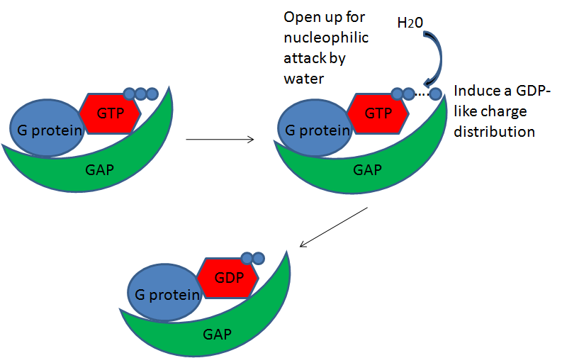 GAP works on G proteins by opening them up to nucleophilic attack by water and inducing a GDP-like charge distribution.